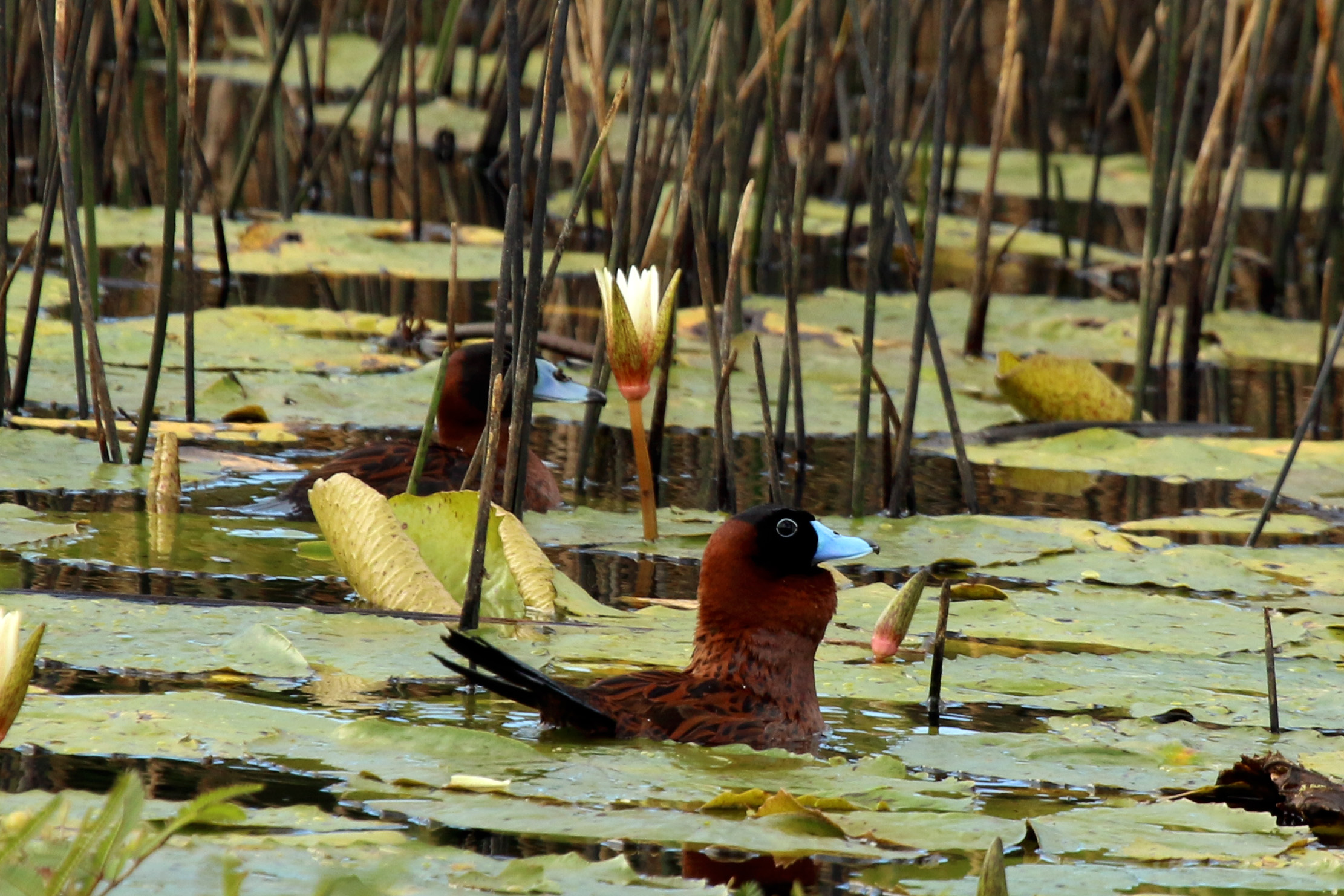 Masked duck (Nomonyx dominicus), adult male, Tobago